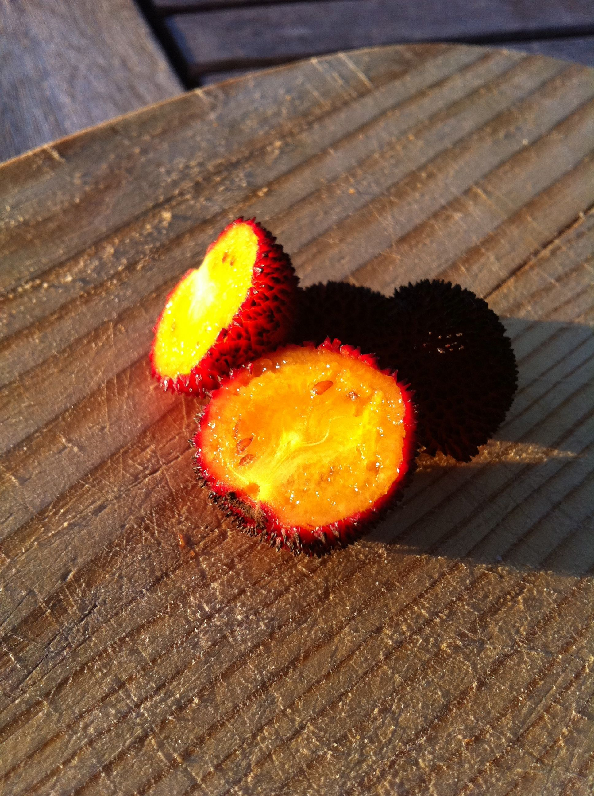 Close up shot of the inside of a strawberry tree berry